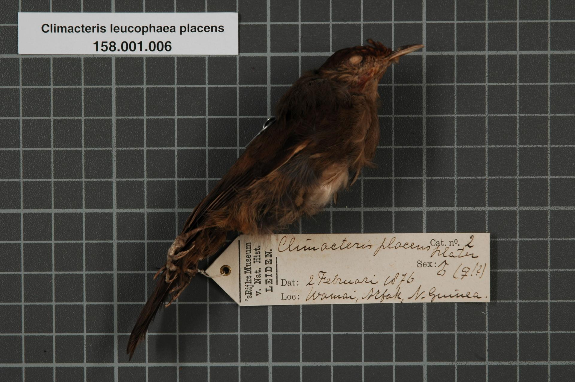 Climacteris leucophaea placens Sclater, 1874